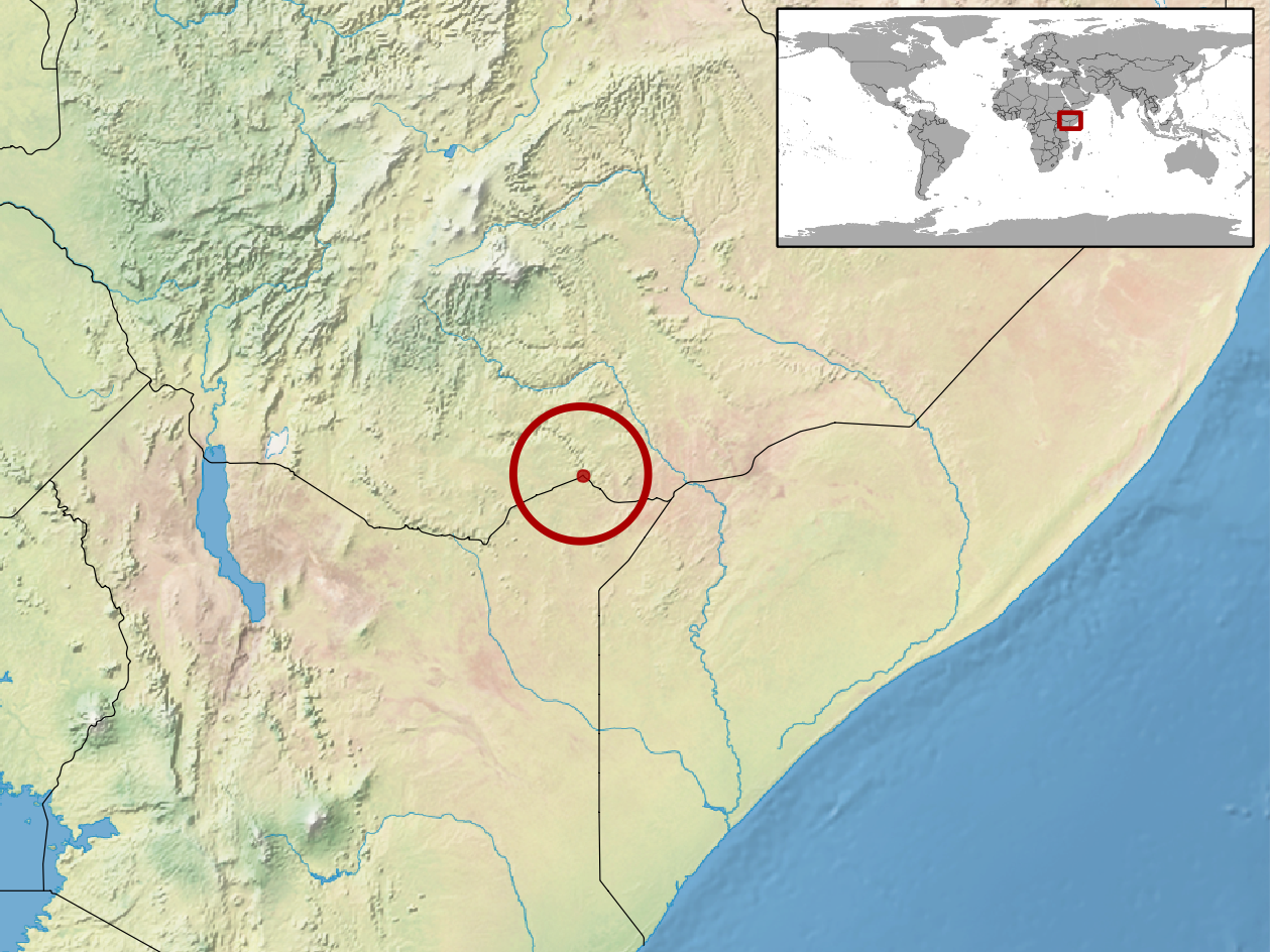 geographic distribution of Lygodactylus grandisonae (Native: Kenya)